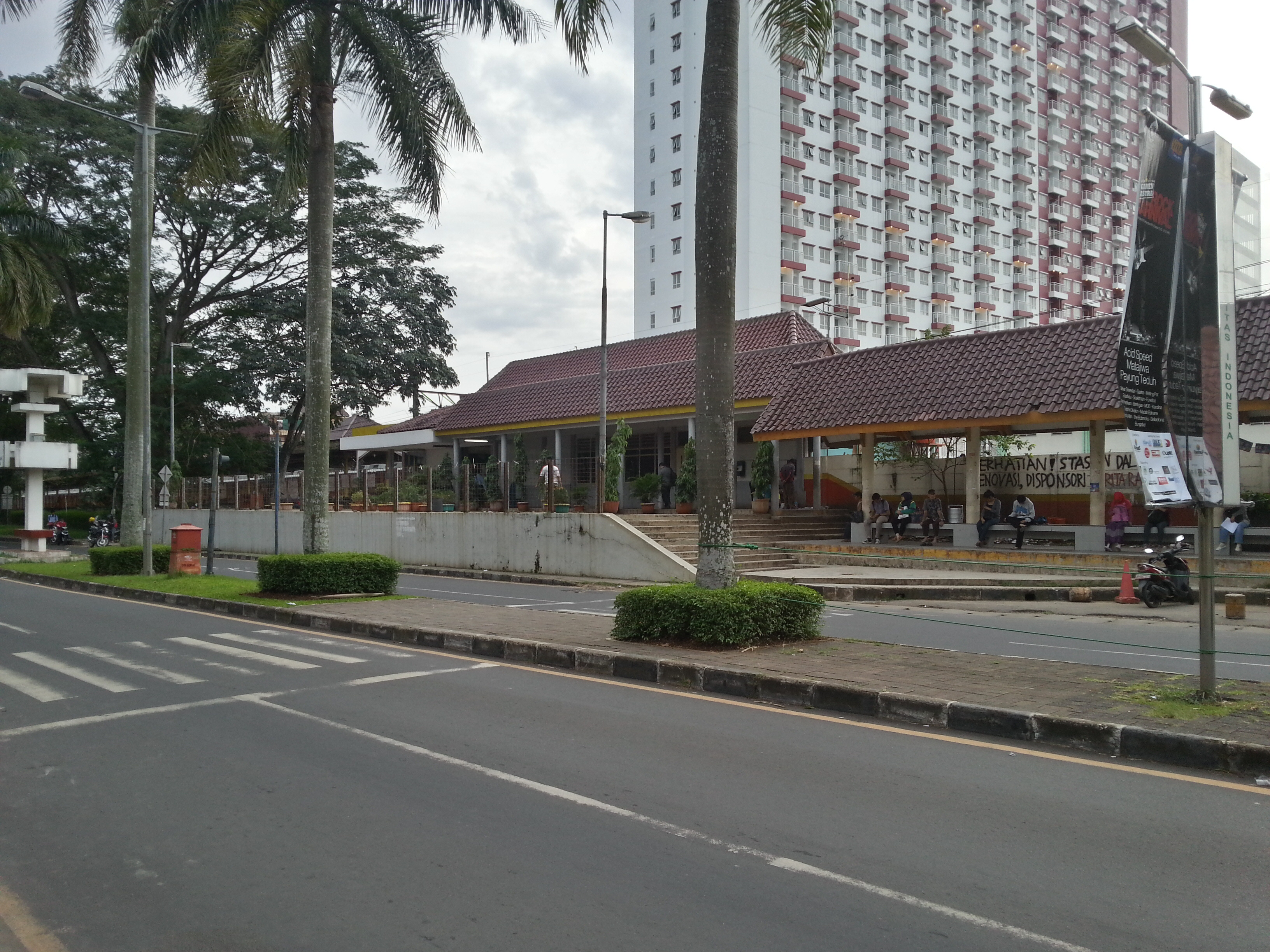 Universitas Indonesia Station main entrance